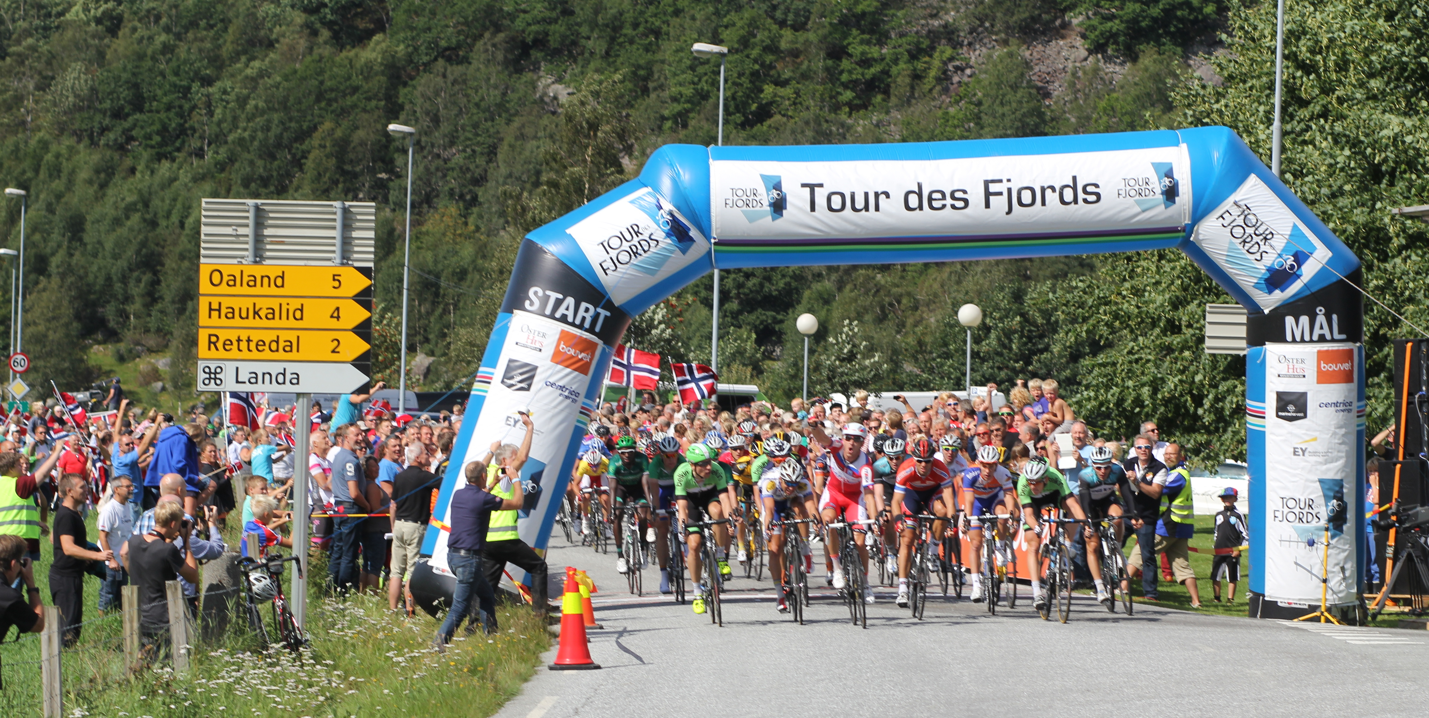 Alexander Kristoff winner stage 2 Tour des FjordsNorsk bokmål: Alexander Kristoff vinner 2. etappe i Tour des Fjords